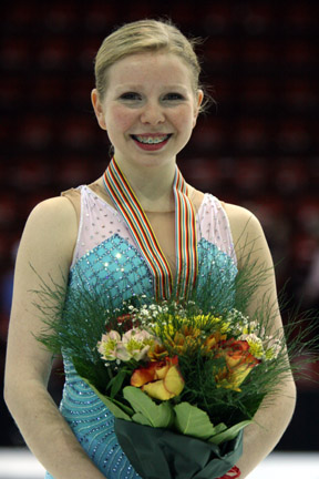 Rachael Flatt on the podium at the 2008 World Junior Figure Skating Championships. She won this competition.